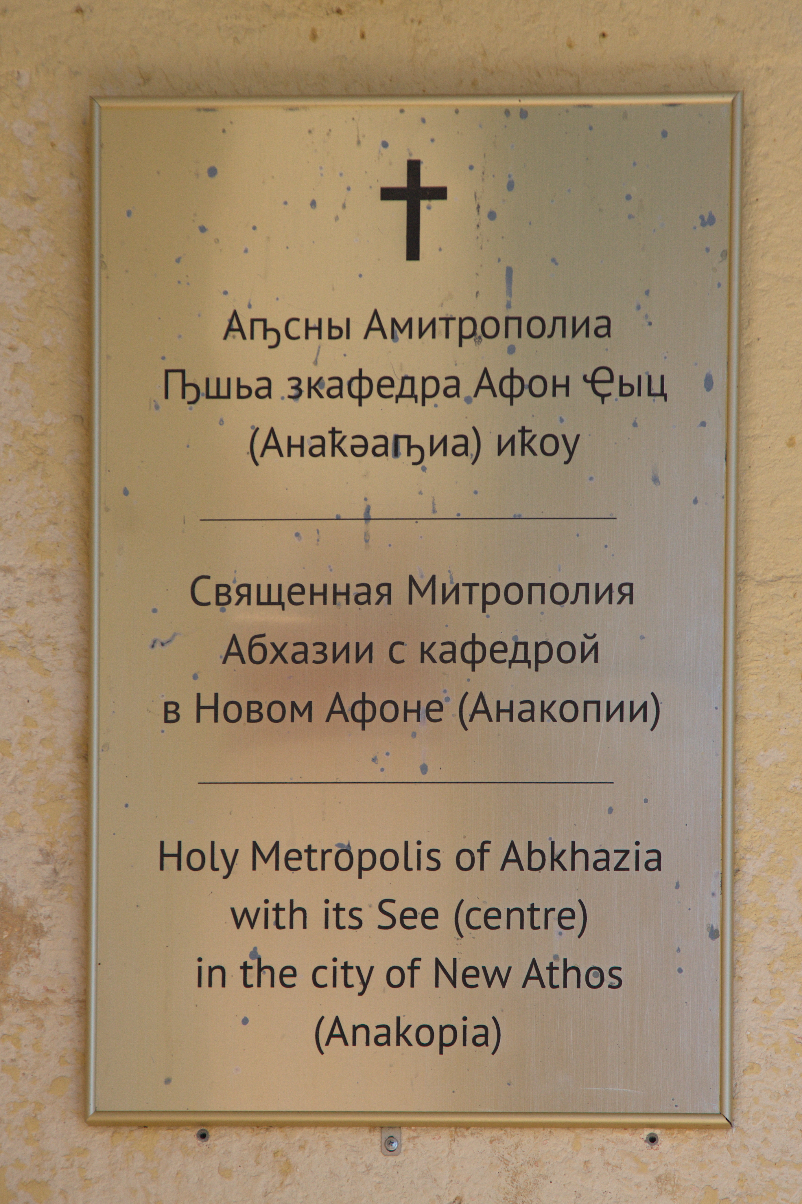 Monastery of St. Apostle Simon the Zealot. New Athos, Gudauta District, Abkhazia.